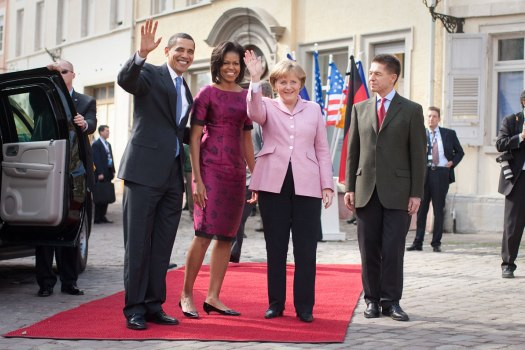 US President Barack Obama and First Lady Michelle Obama are welcomed by German Chancellor Angela Merkel and her husband, Professor Joachim Sauer, to Rathaus in Baden-Baden, Germany.